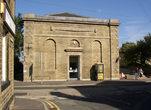 Lindley Library. The library is in the former Mechanics Hall, as is inscribed on a three-dimensional scroll on the wall.